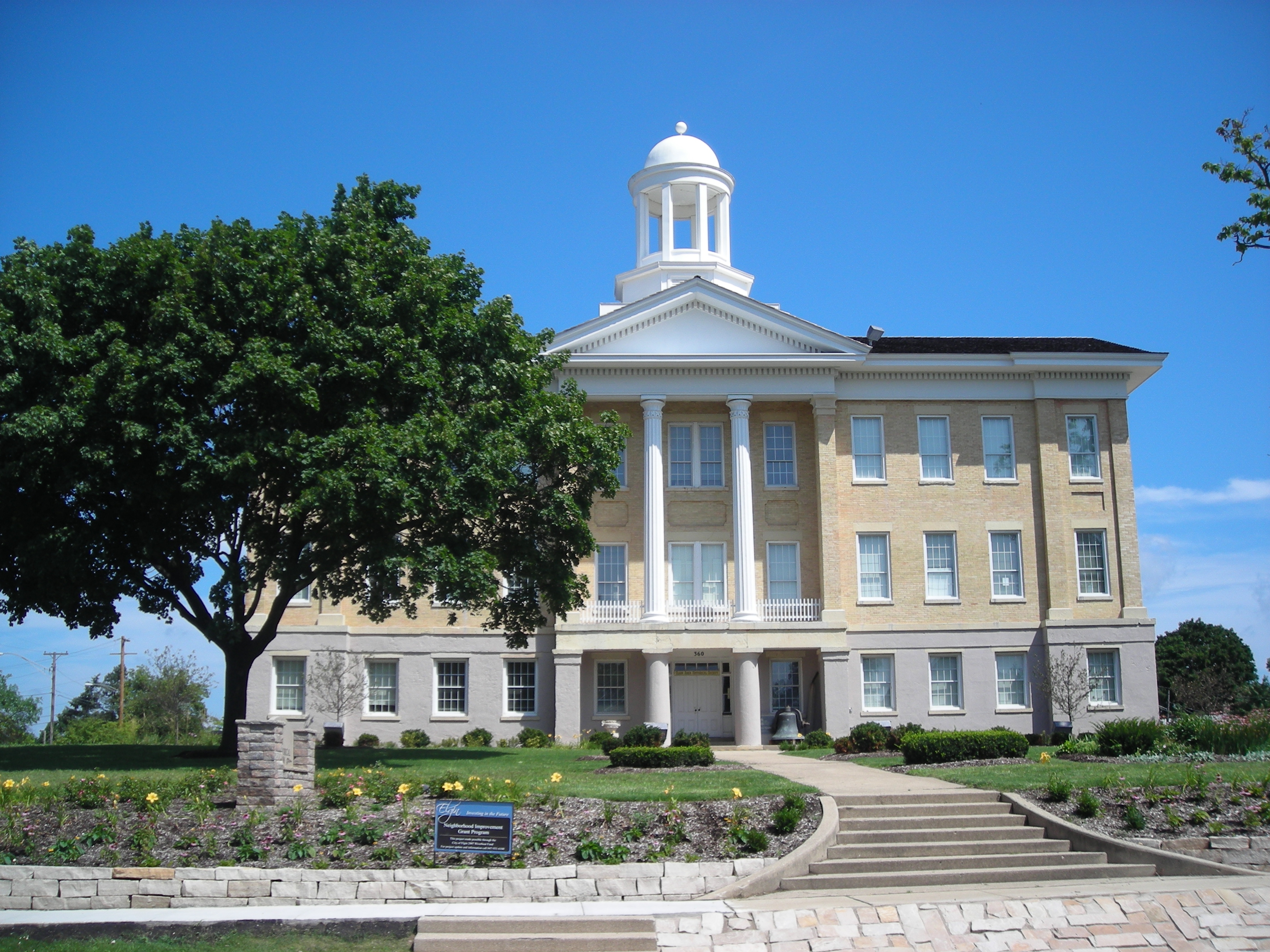 Elgin Historical Museum. Elgin, Kane County, Illinois. National Register of Historic Places.